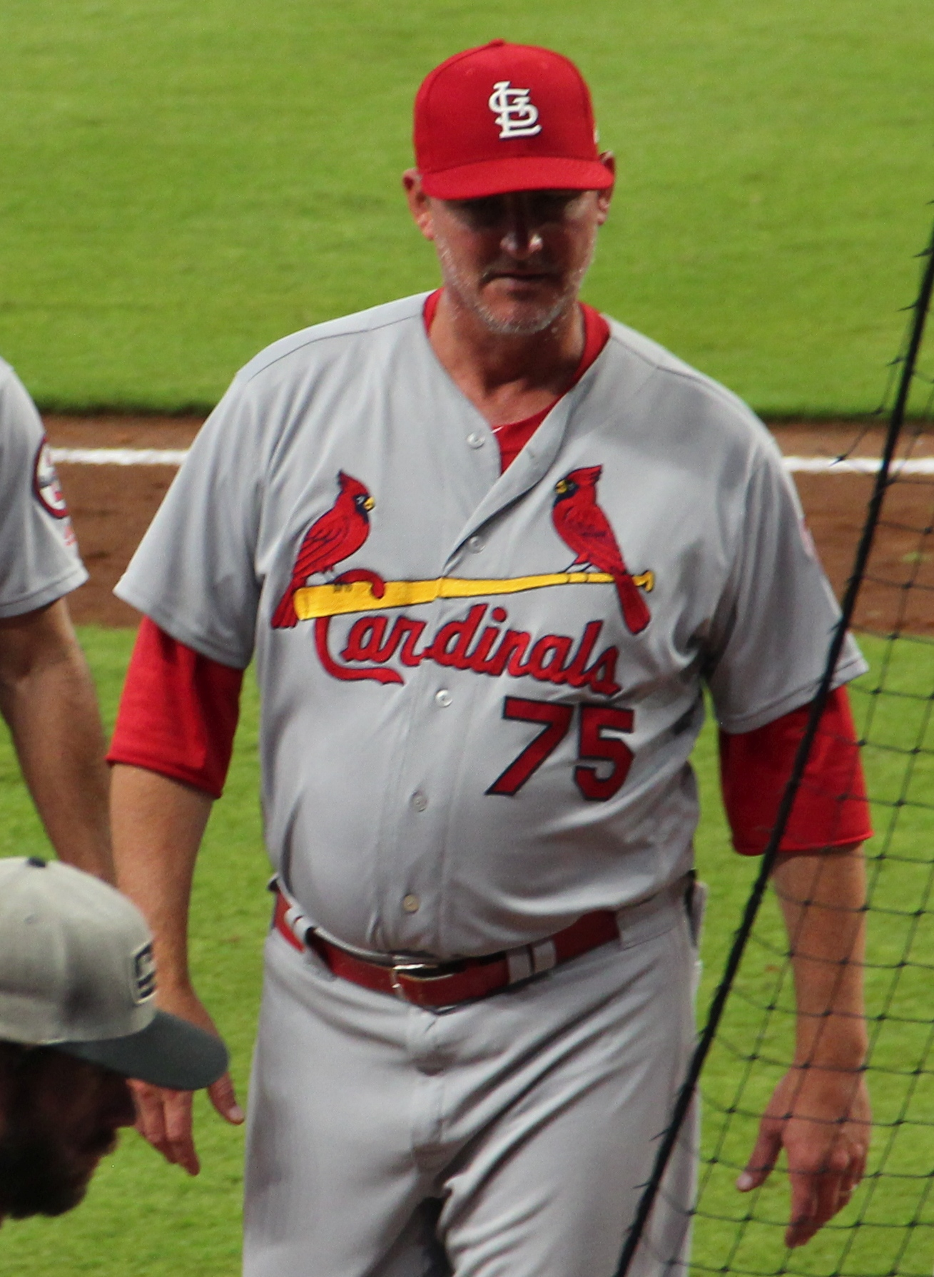 Ron Warner